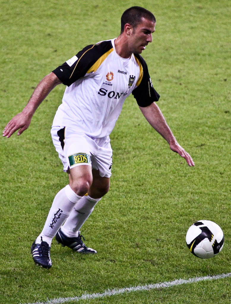 Manny Muscat playing for Wellington Phoenix against Sydney FC in round 11 of the 08/09 A-League.